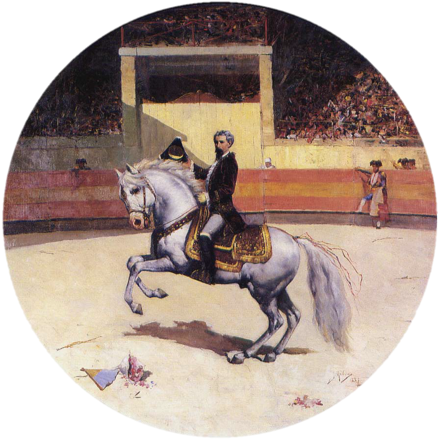 Carlos Relvas bullfighting (1887), by José Malhoa. Currently in the Casa-Museu dos Patudos, in Alpiarça, Portugal.